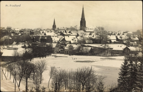 The town of Friedland (modern Debrzno) on an 1917 postcard; The postcard was published by "Verlag Ferd. Becker, Pr. Friedland" (stamped on the reverse) in 1917, otherwise anonymous